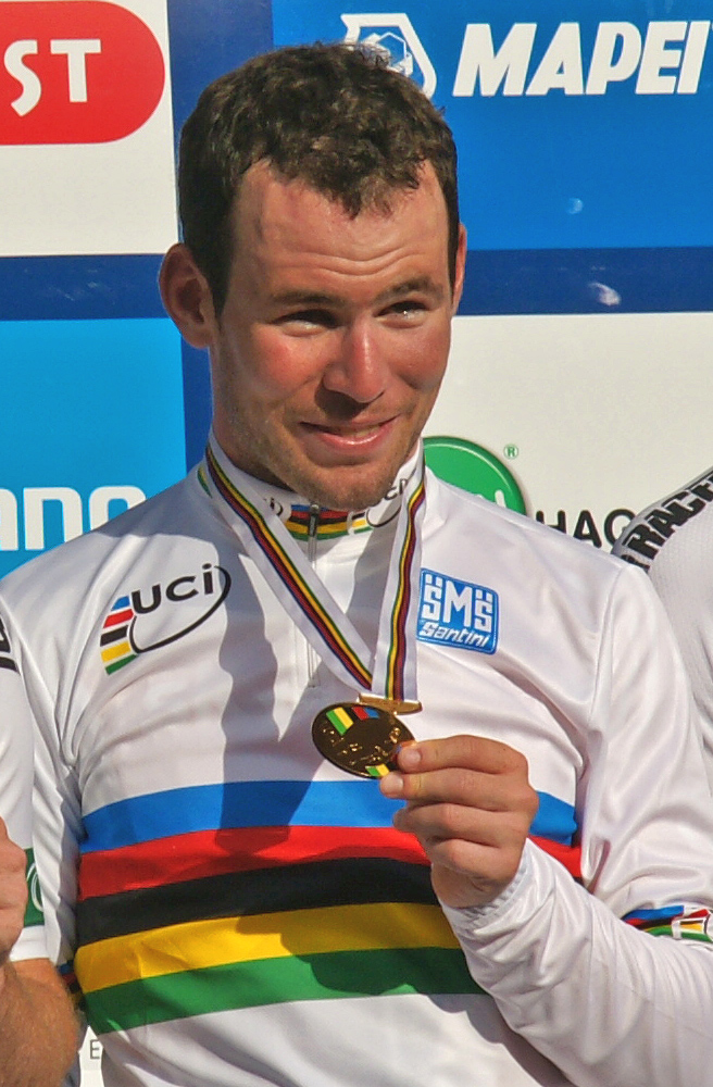 2011 UCI Road World Championships – Men's road race - The winner and new world champion 2011 Mark Cavendish